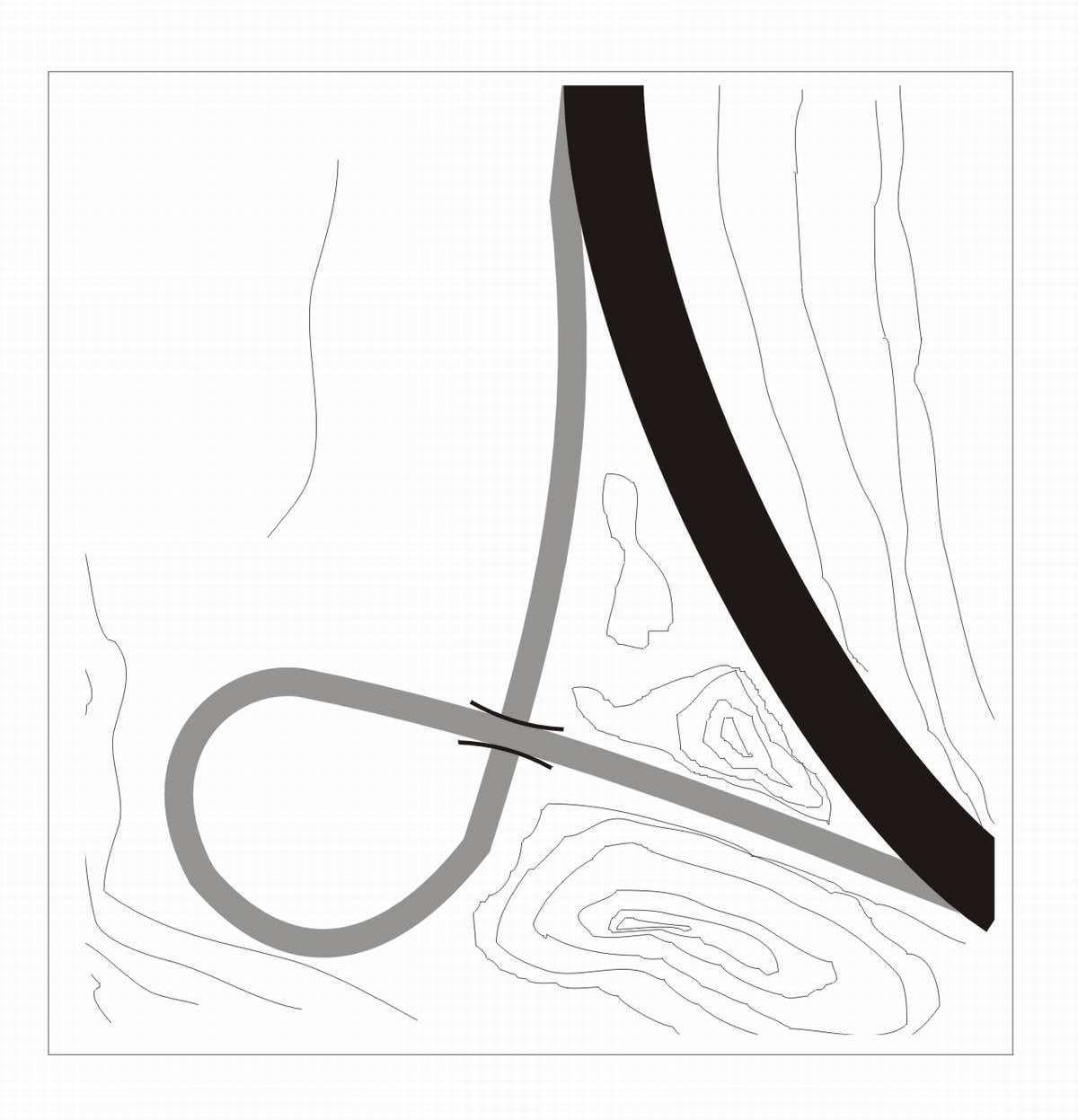 The Knuten road construction